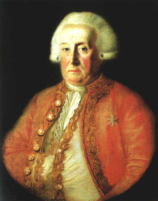 Portrait of Wolfgang Heribert von Dalberg (1750-1806) Mannheim, Germany